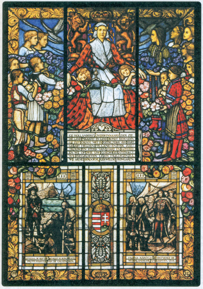 The_Hungarian_window_in_the_Dutch_Royal_palacelabel QS:Len,"The_Hungarian_window_in_the_Dutch_Royal_palace" label QS:Lhu,"A Magyar ablak a hágai holland királyi palotában"